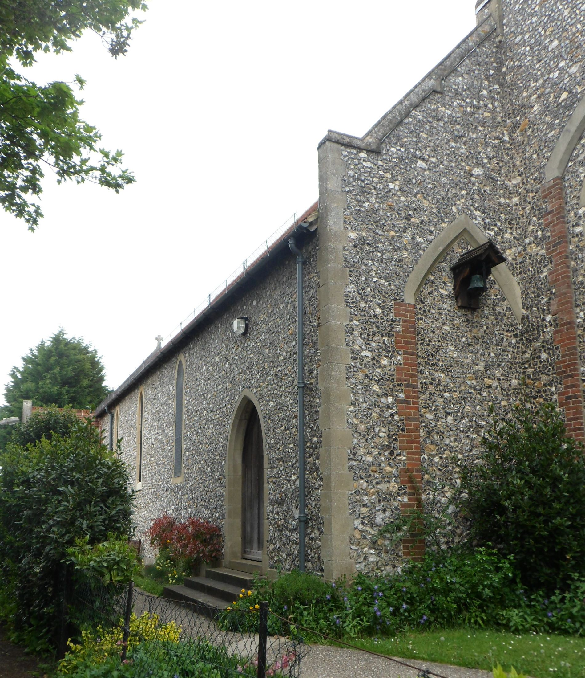 View west along the south side of St Symphorian's parish church, Durrington, Worthing, West Sussex, England